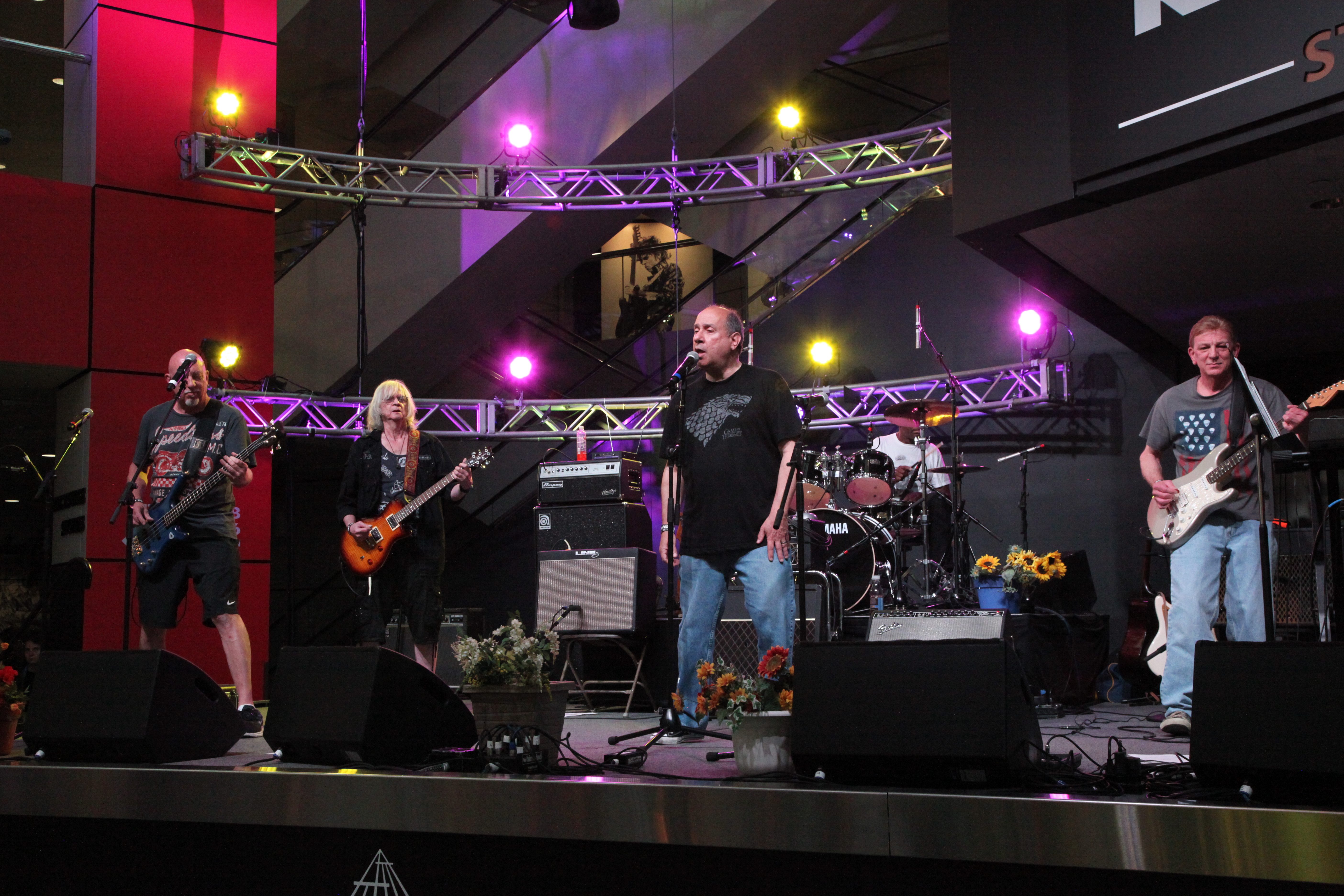 The Bizarros playing at the Akron Sound Night at the Rock and Roll Hall of Fame in 2016.